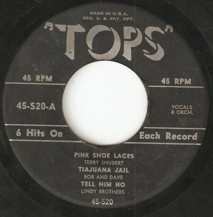 Pink Shoe Laces by Terry Shubert, Tiajuana Jail by Bob and Dave and Tell Him No by the Lindy Brothers, Tops 1950s.